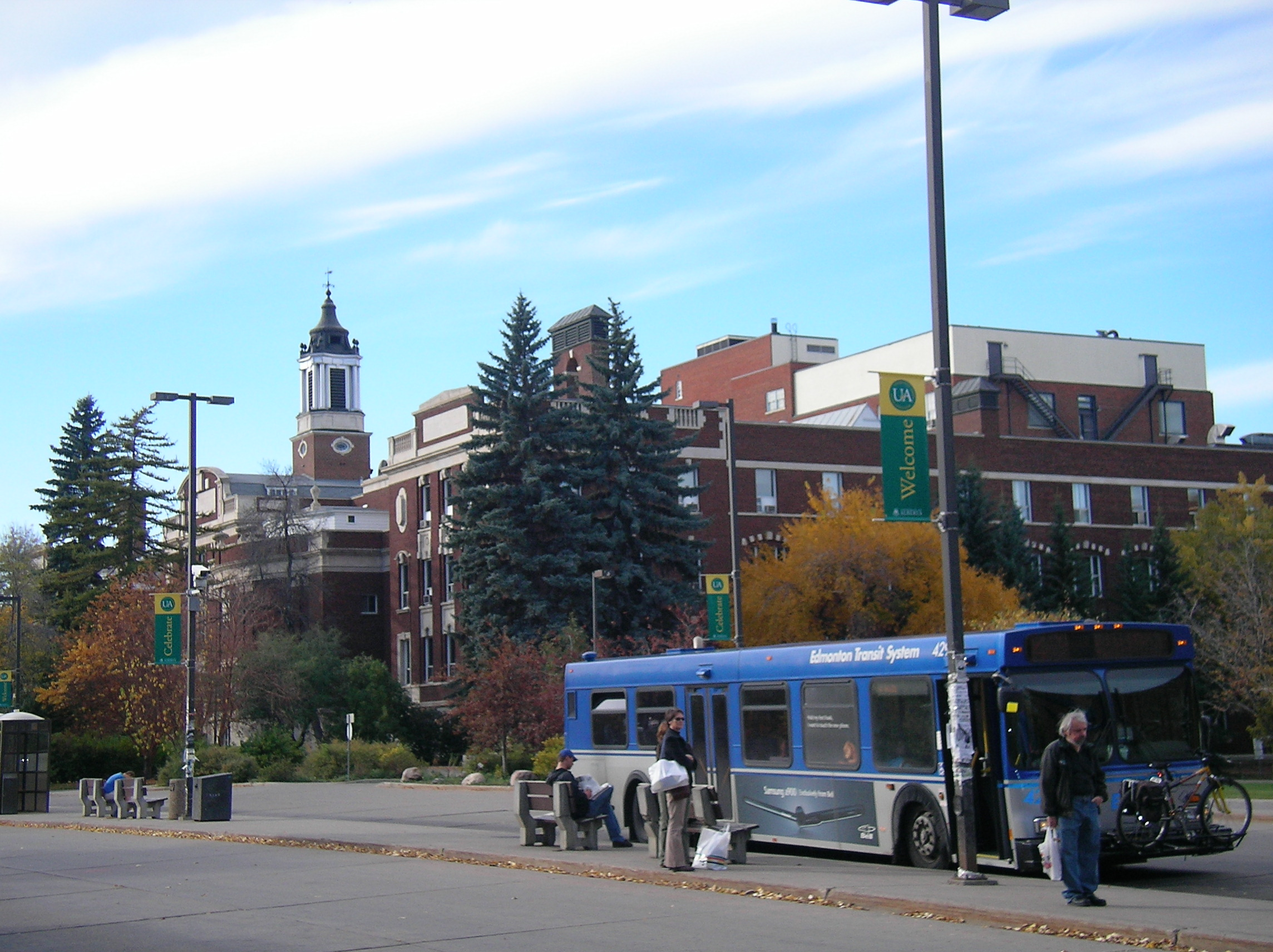 Bus stop at the entrance of the University of Alberta